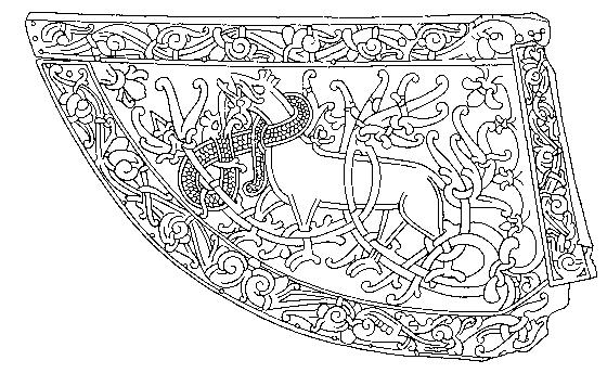 Källunge viking banner